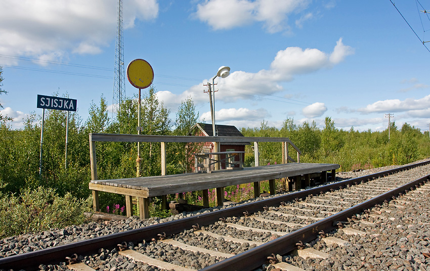 The platform with stationbuilding in the background in Sjisjka.